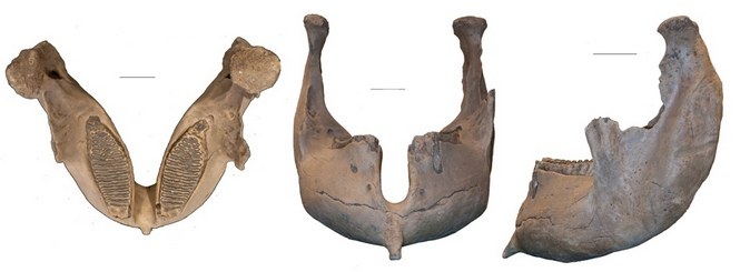 Доња вилица рунастог мамута (Mammuthus primigenius) из плеистоцена, Музеј у Смедереву